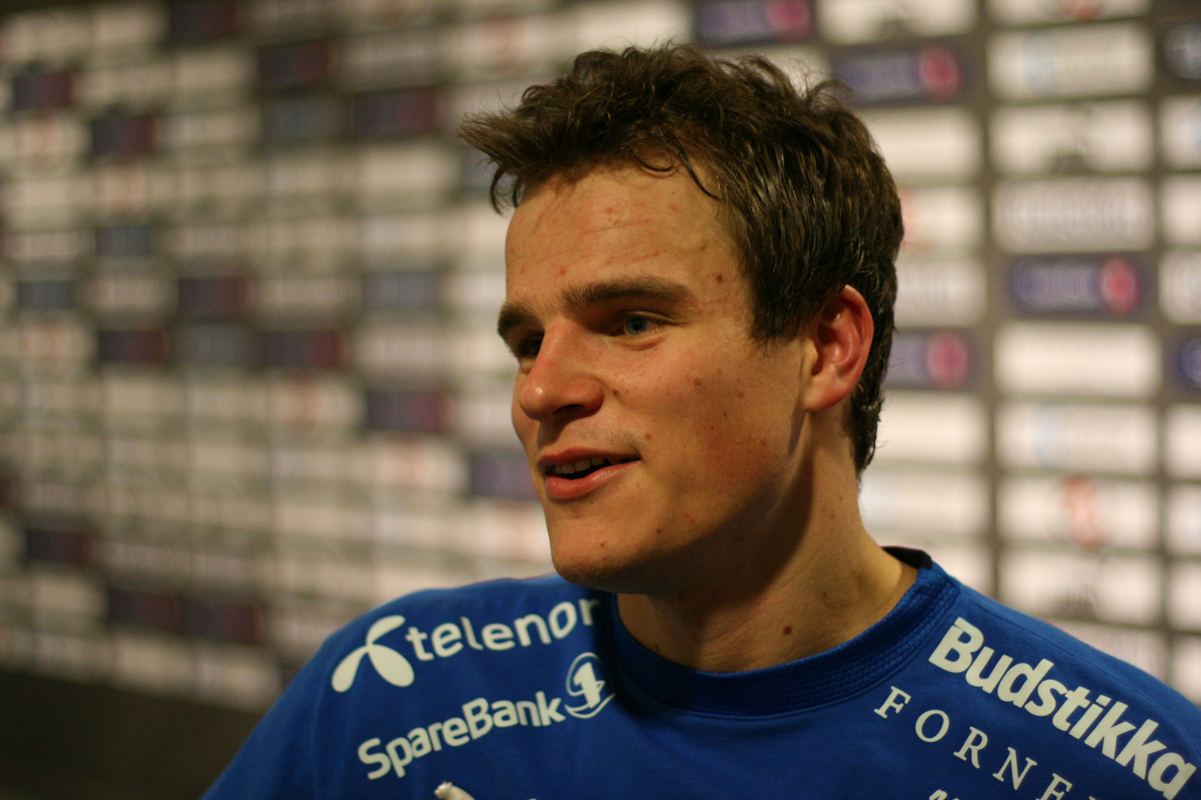 Norwegian footballer Henning Hauger.